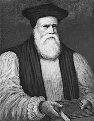 Detail of an imagined portrait of William Morgan (1545-1604)